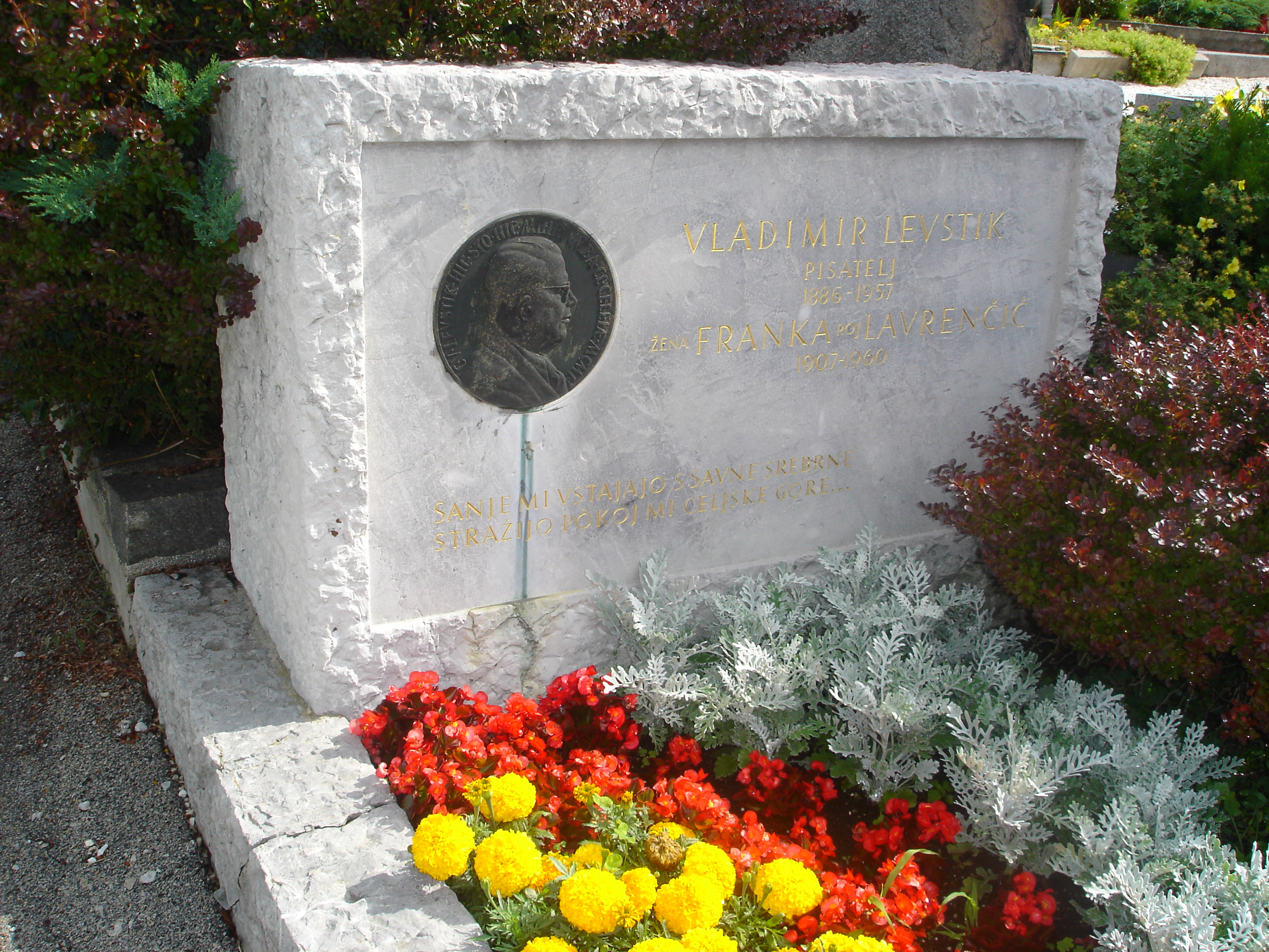 Vladimir Levstik Grave, Celje